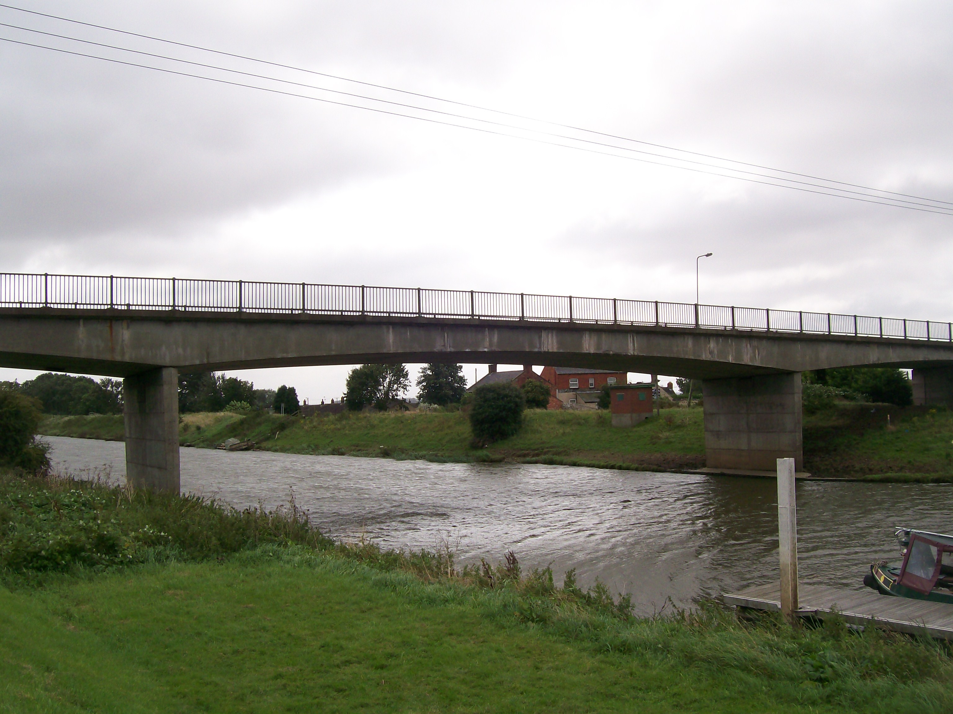 Kirkstead Bridge, over the River Witham.